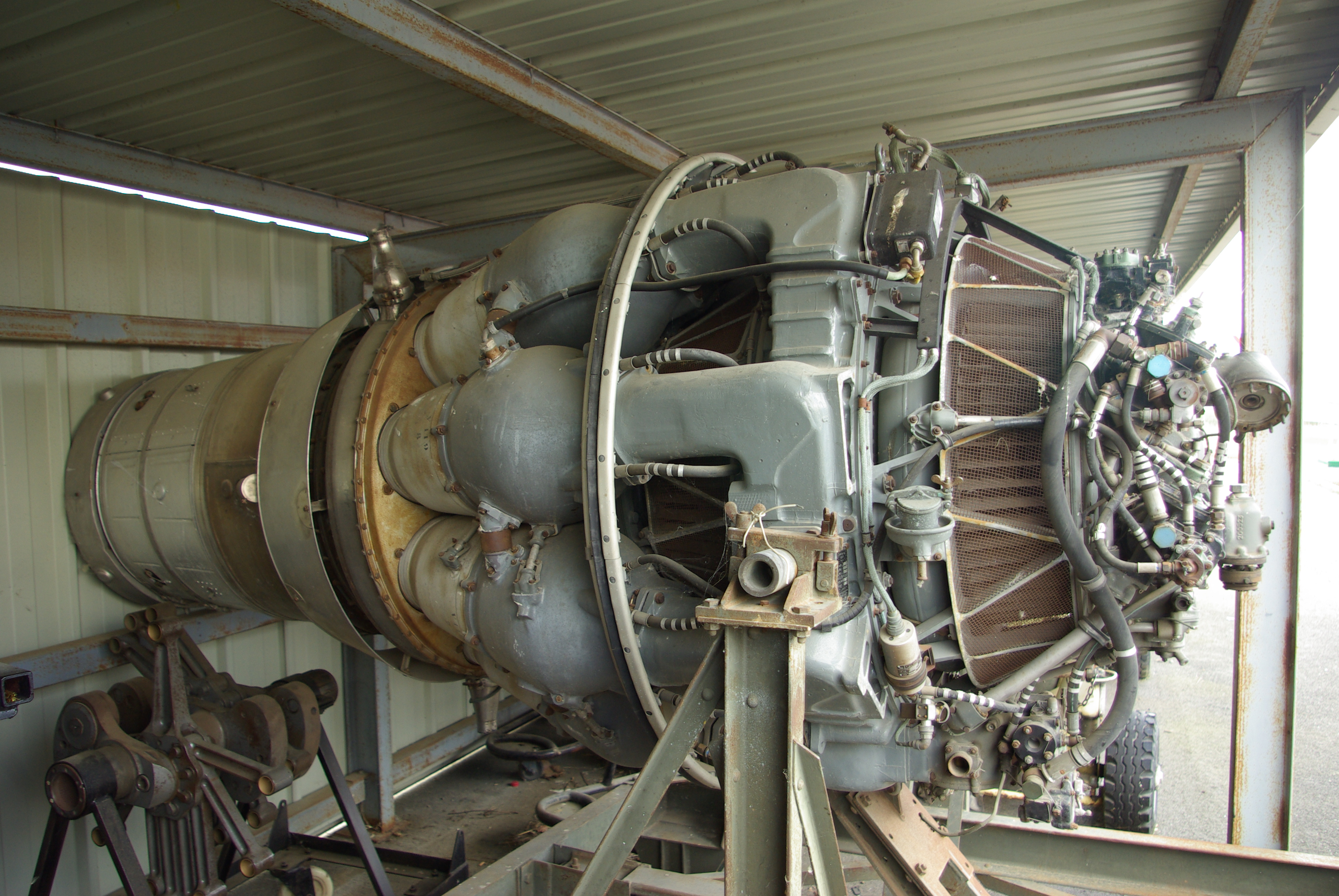 A turbojet engine Hispano-Suiza Verdon powering the Dassault Mystere IV, displayed to the Musée des ailes anciennes in Toulouse (France).